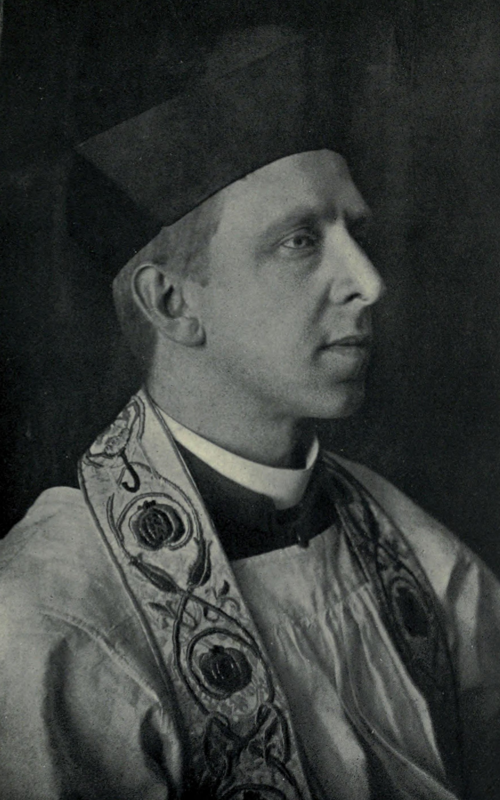 Robert Hugh Benson, Aged 40.